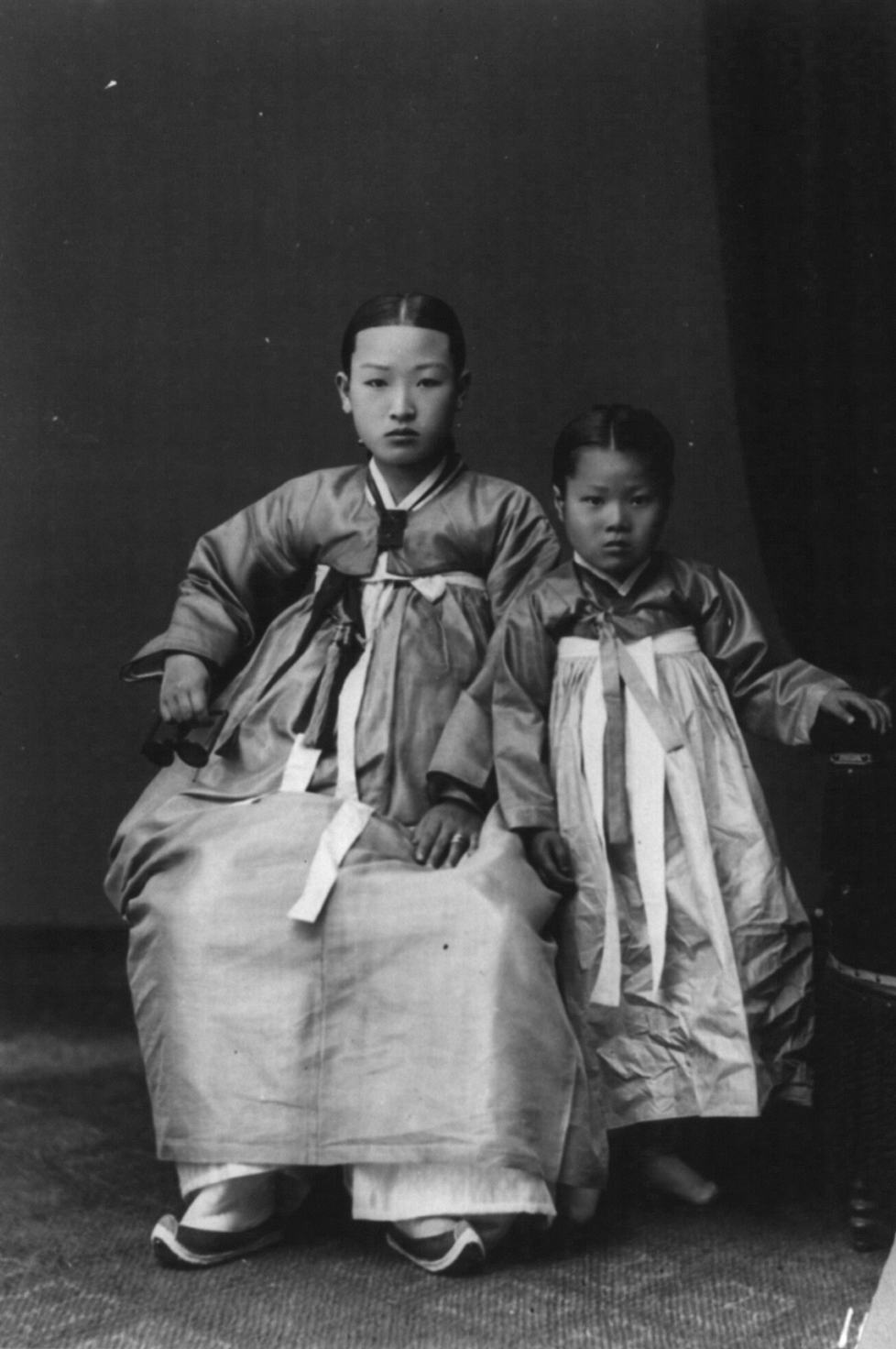 Korean Mother and Child from the Carpenter Collection, ca. 1910-1920 (LOC) TITLE: Korea CALL NUMBER: LOT 11356-3 [item] [P&P] Check for an online group record (may link to related items) REPRODUCTION NUMBER: LC-USZ62-79996 (b&w film copy neg.) No known restrictions on publication. SUMMARY: Korean woman and her daughter in old fashioned costumes. MEDIUM: 1 photographic print. CREATED/PUBLISHED: [between 1910 and 1920] NOTES:Title and other information transcribed from caption card and item. LOT subdivision subject: Korea. Frank and Frances Carpenter Collection (Library of Congress). Caption card tracings: Costume -- Korea; Family groups -- 1910-1920; Korea -- Misc. -- 1910-1920; Shelf. FORMAT:Photographic prints 1910-1920. REPOSITORY: Library of Congress Prints and Photographs Division Washington, D.C. 20540 USA DIGITAL ID: (b&w film copy neg.) cph 3b26992 CARD #: 2001705590